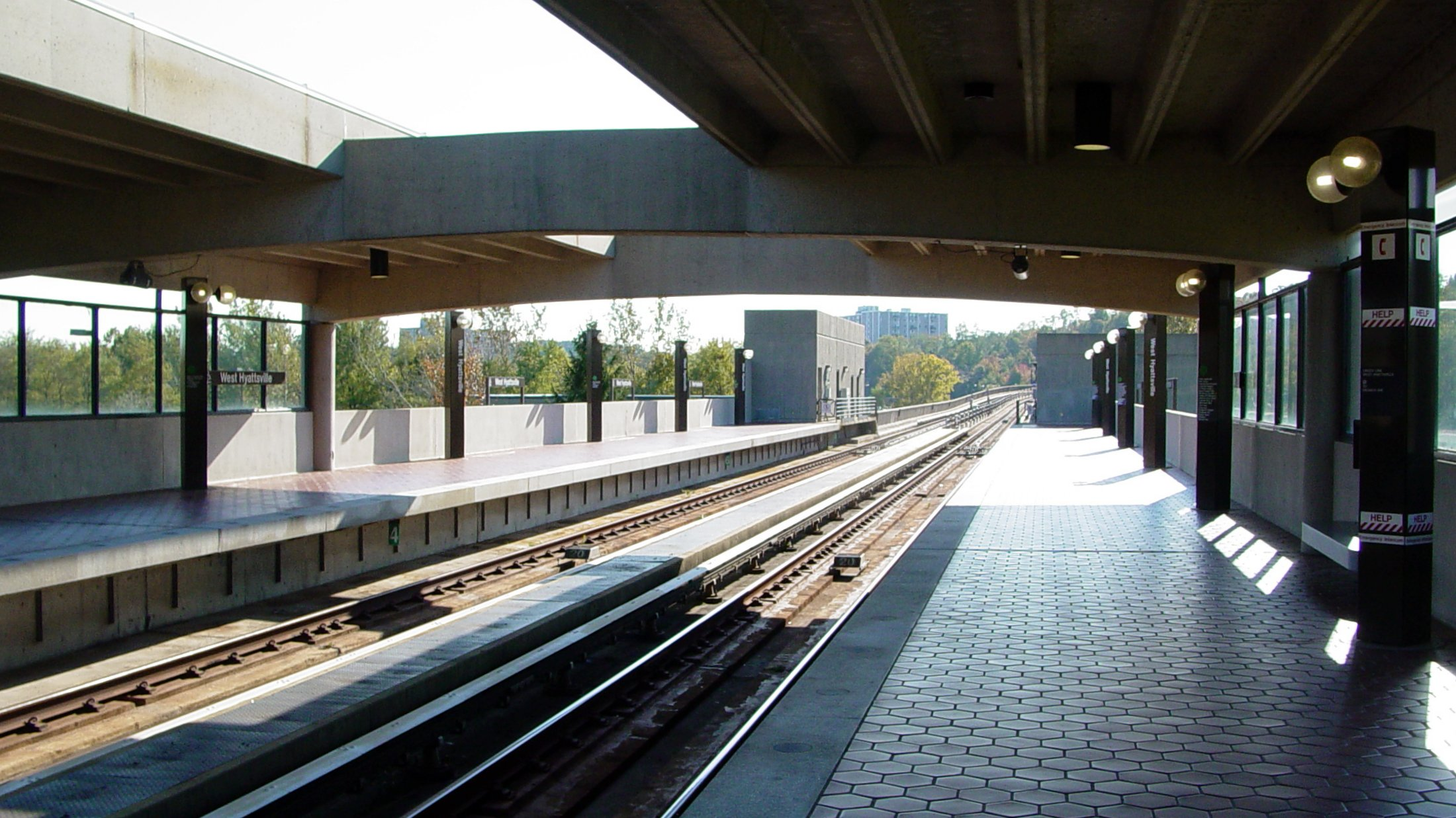 West Hyattsville station, part of the Washington Metro's Green Line, in Prince George's County, Maryland.